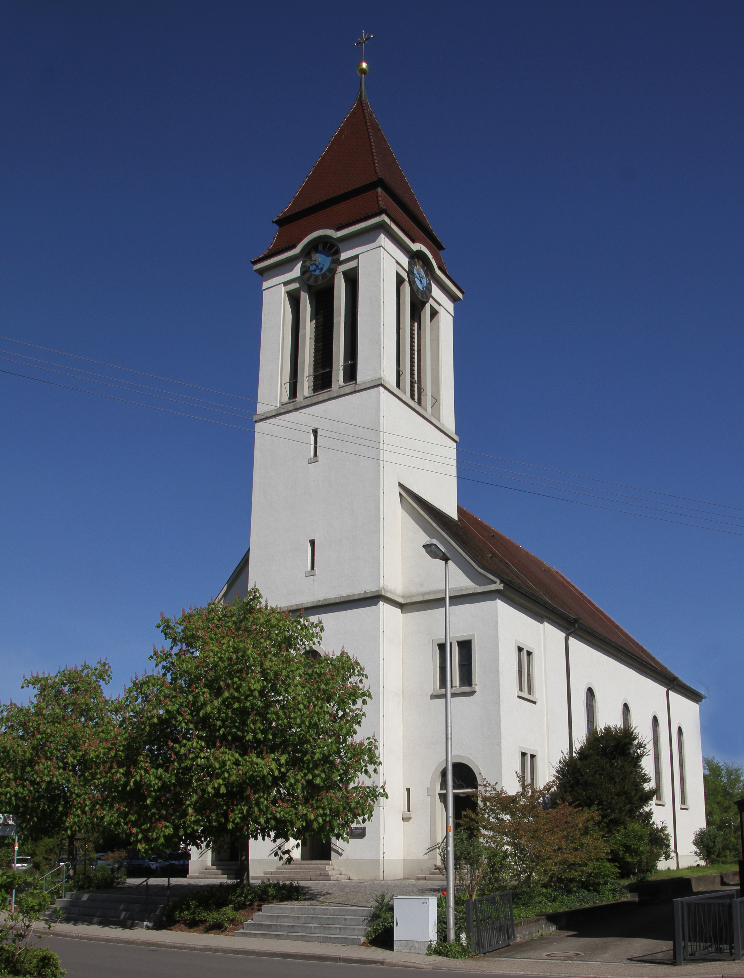 Church of Heilig Blut in Bühl-Weitenung.